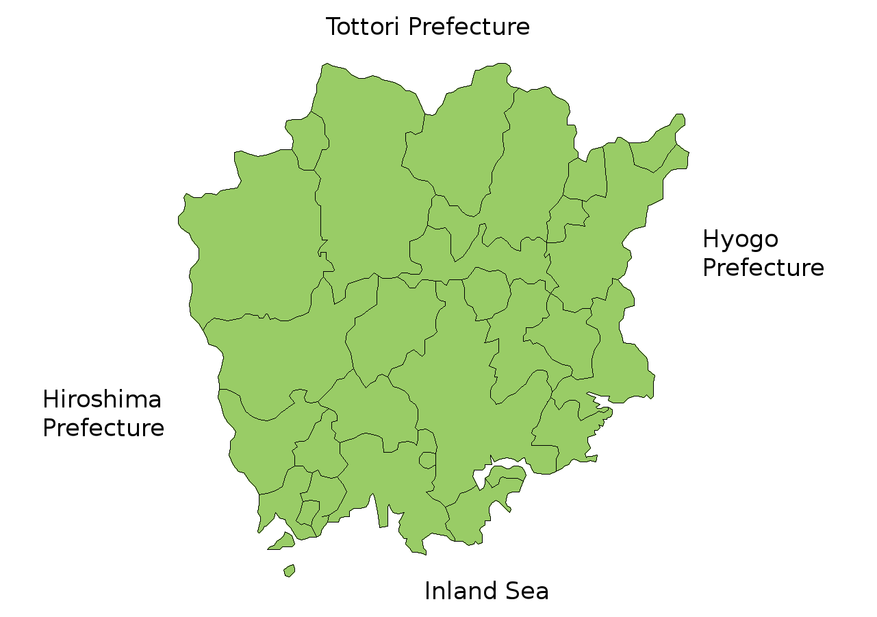 Map of Okayama Prefecture, Japan. Thanks to Aoki Shigenobu and [1]. Colors from Image:TokyoMapCurrent.png by User:Fg2.